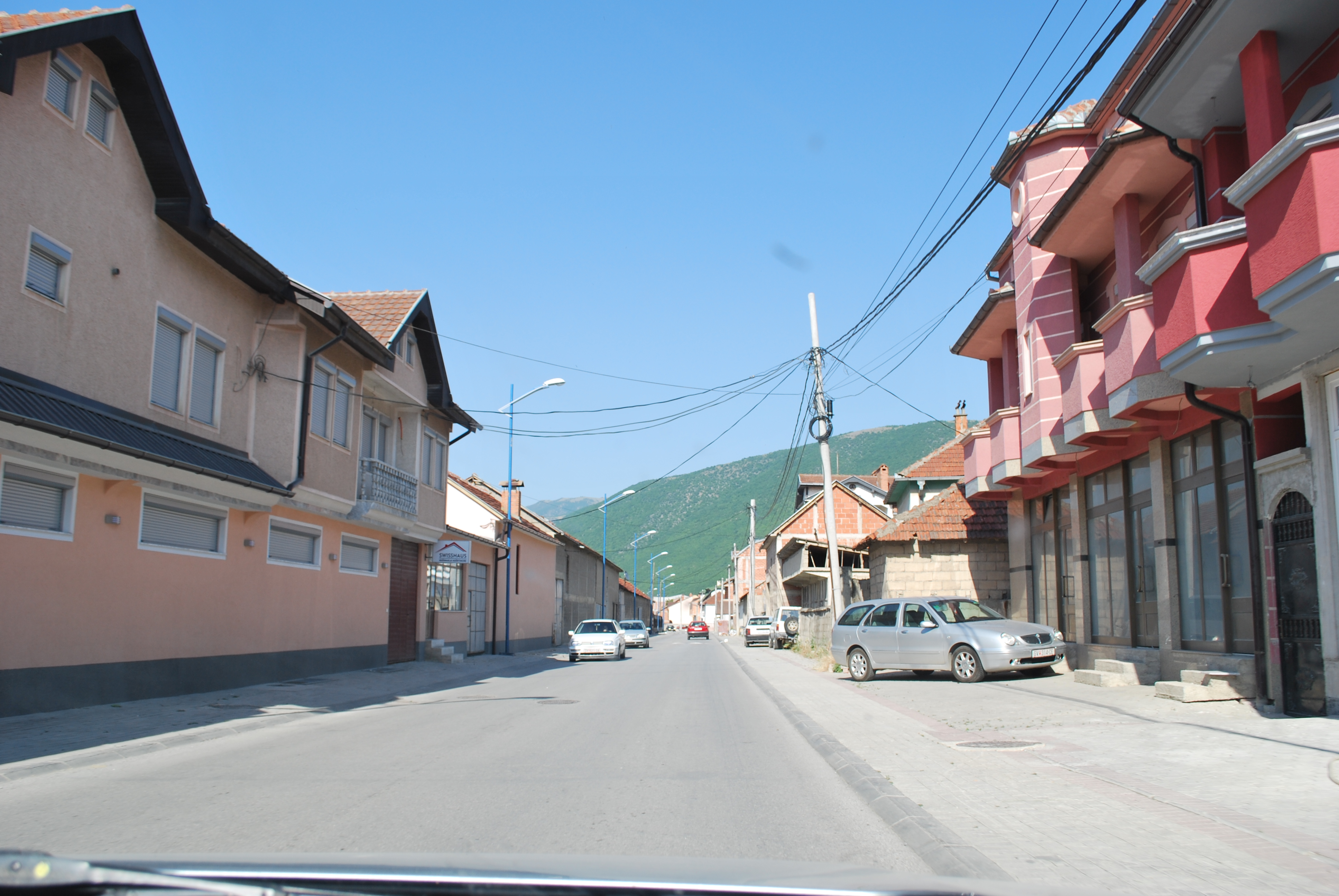 Čajle near Gostivar, Macedonia